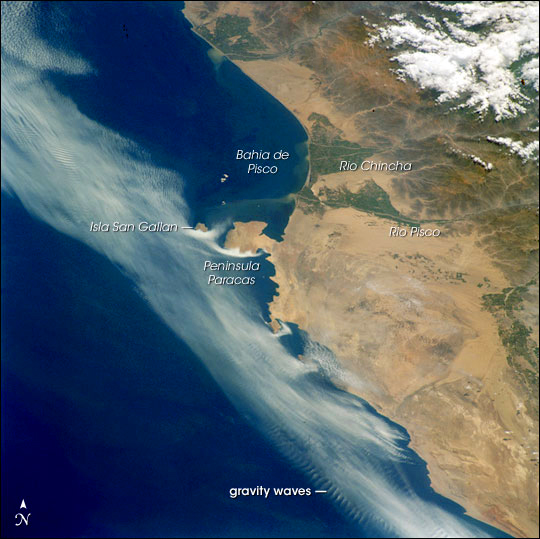 Coastal fog commonly drapes the Peruvian coast. This image captures complex interactions between land, sea, and atmosphere along the southern Peruvian coast. When Shuttle astronauts took the image in March of 2002, the layers of coastal fog and stratus were being progressively scoured away by brisk south to southeast winds.